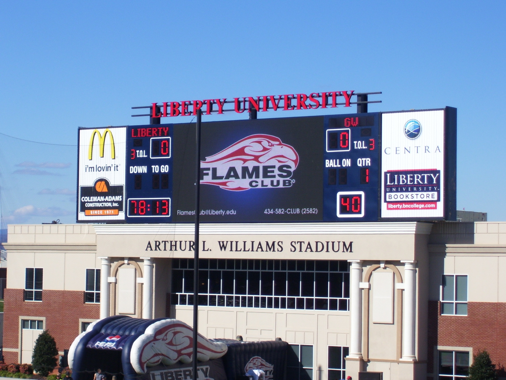 Williams Stadium in Lynchburg, VA